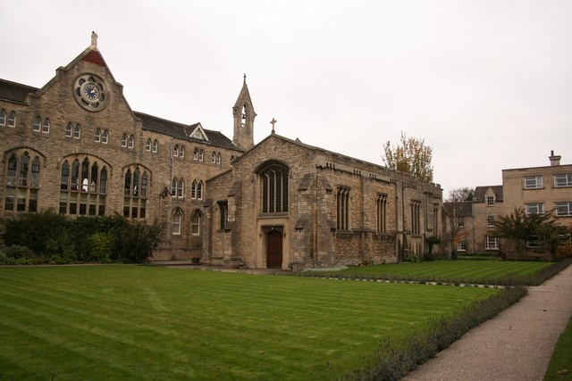 Stamford School. View from St. Paul's Street.